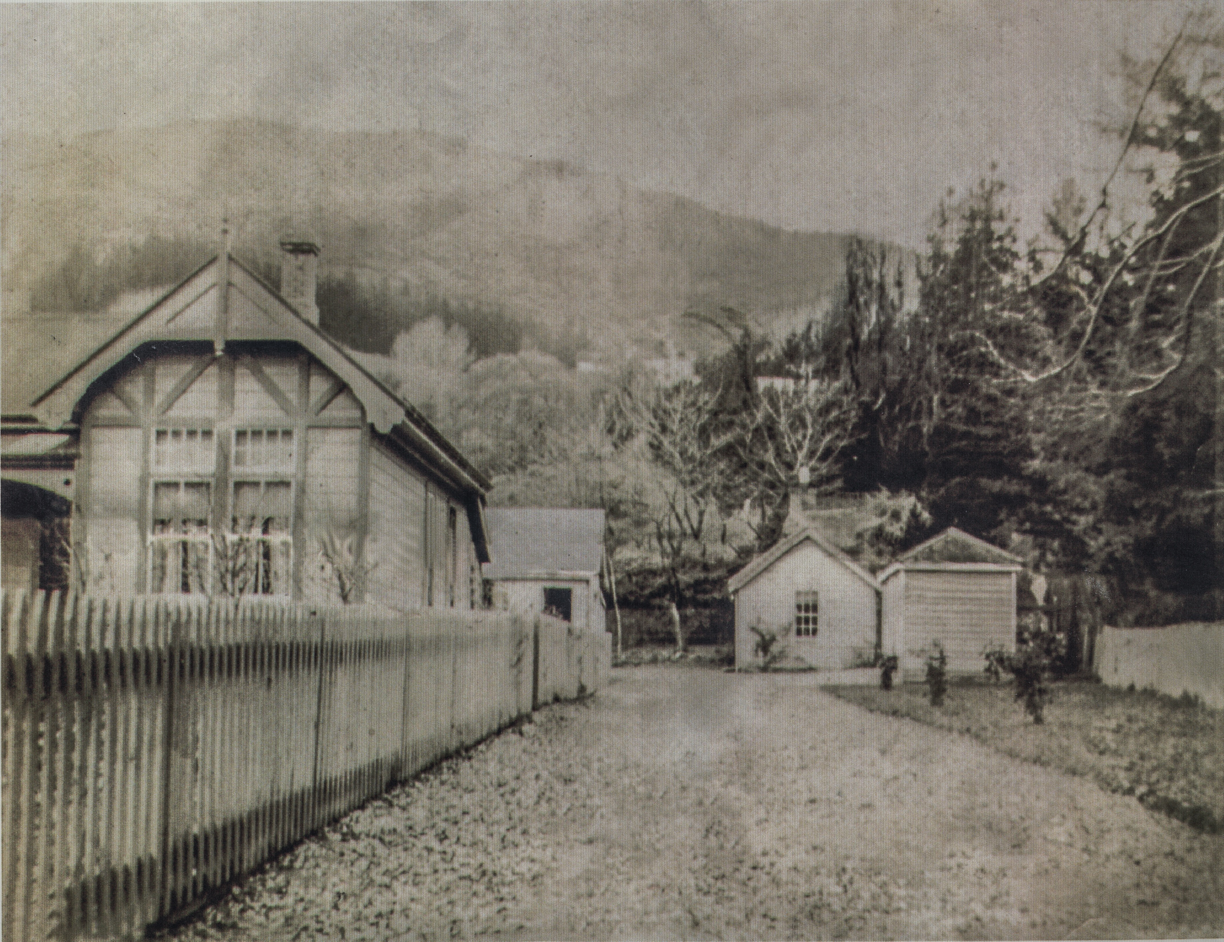 Queenstown Police Station, photo estimated 1800's